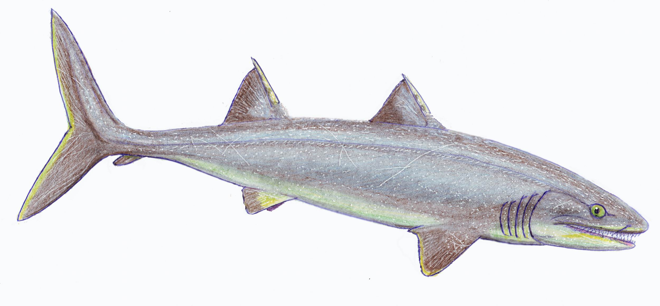 Glikmanius occidentalis from Carboniferous of North America and Russia. Based on hole specimen from Nebraska.